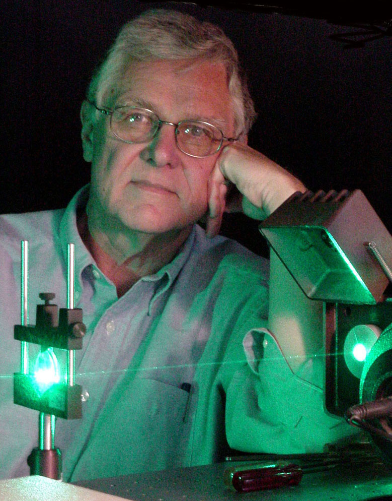 William B. Bridges in his lab at Caltech with an Argon Ion laser, 2005.